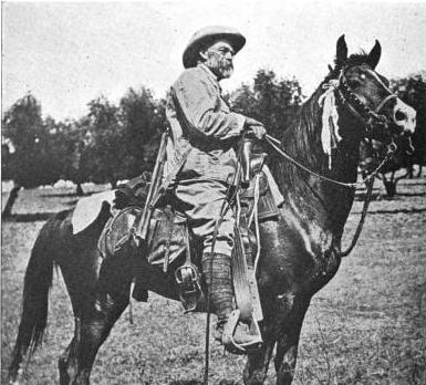 Fred Shepard and horse